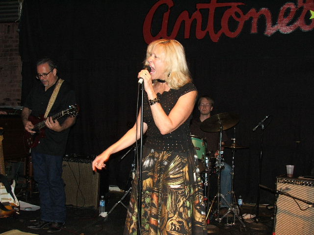 Angela Strehli at Antone's 31st Anniversary "Girls Night" in Austin, TX - July 2006. Photo by Ron Baker.